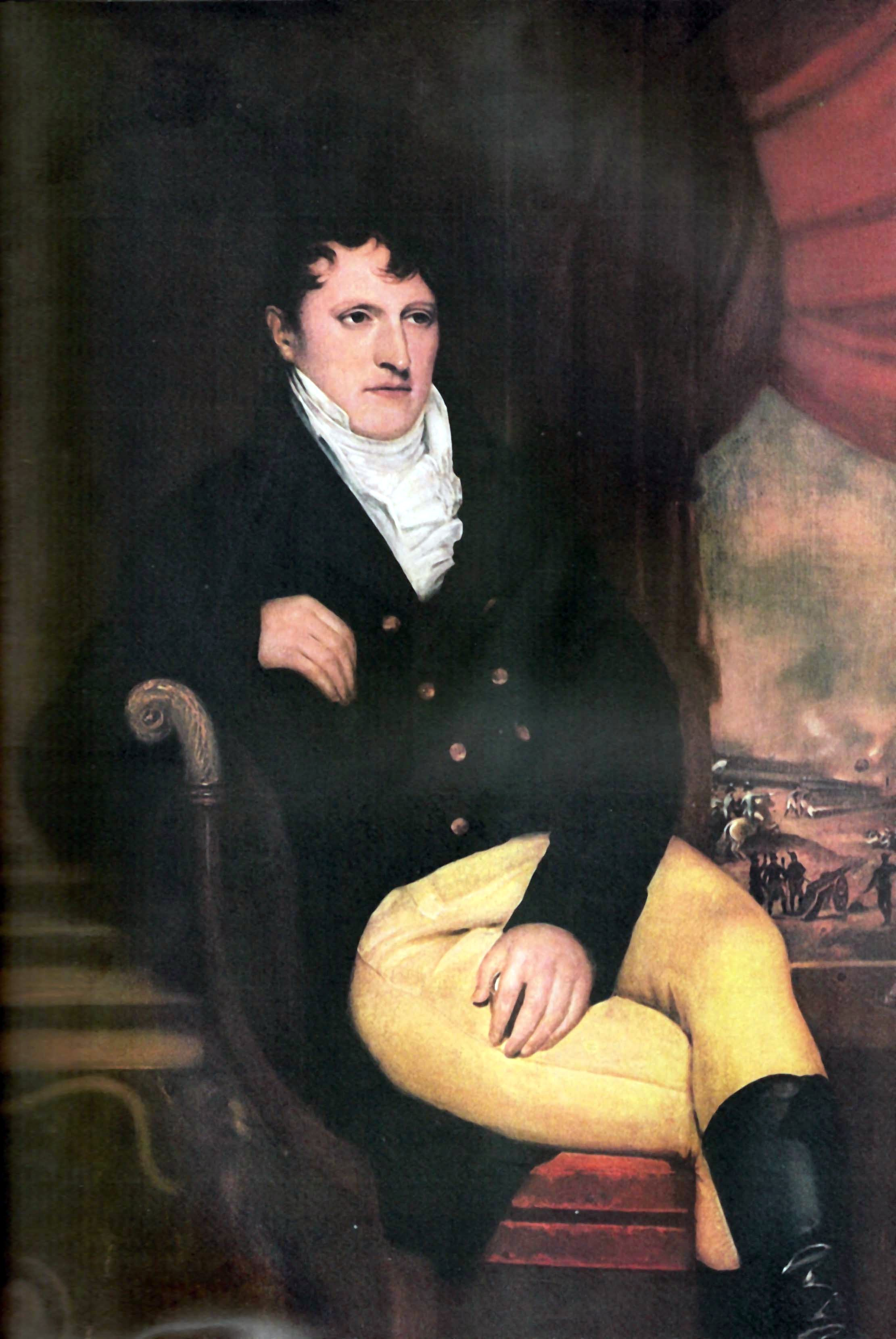 Portrait of Manuel Belgrano made in London (1815) by French artist Francois Casimir Carbonnier, for whom Belgrano posed during his diplomatic mission at the english capitol. The portrait is currently hold at the "Museo Municipal de Artes Plásticas Dámaso Arce" museum at Olavarría.